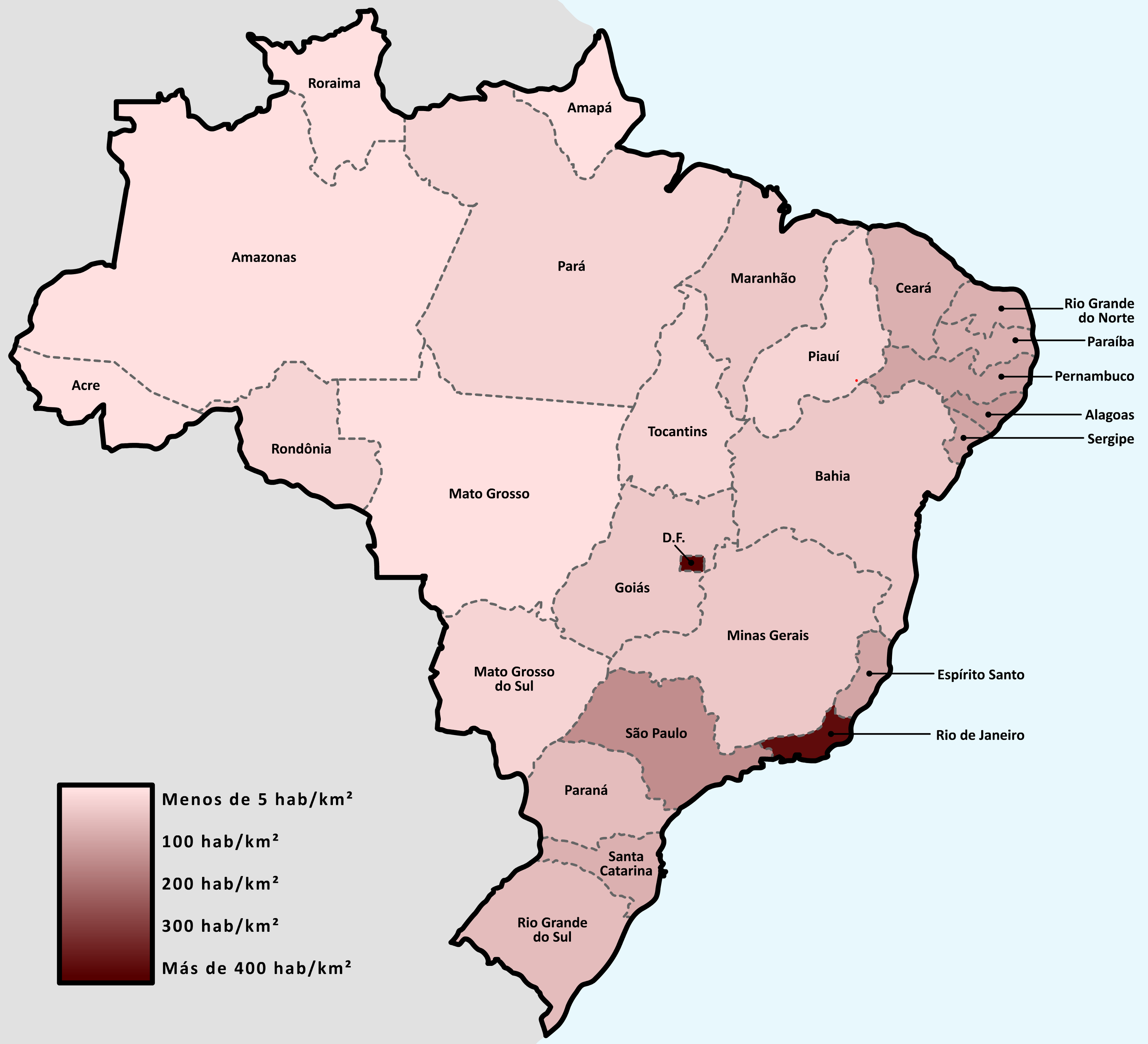 Population density of Brazil by states. Source: 2010 census of the Brazilian Institute of Geography and Statistics.